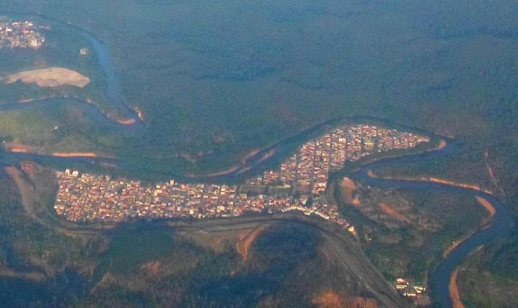 Aerial view of the Amaro Lanari Neighborhood, in Coronel Fabriciano, Minas Gerais, Brazil.